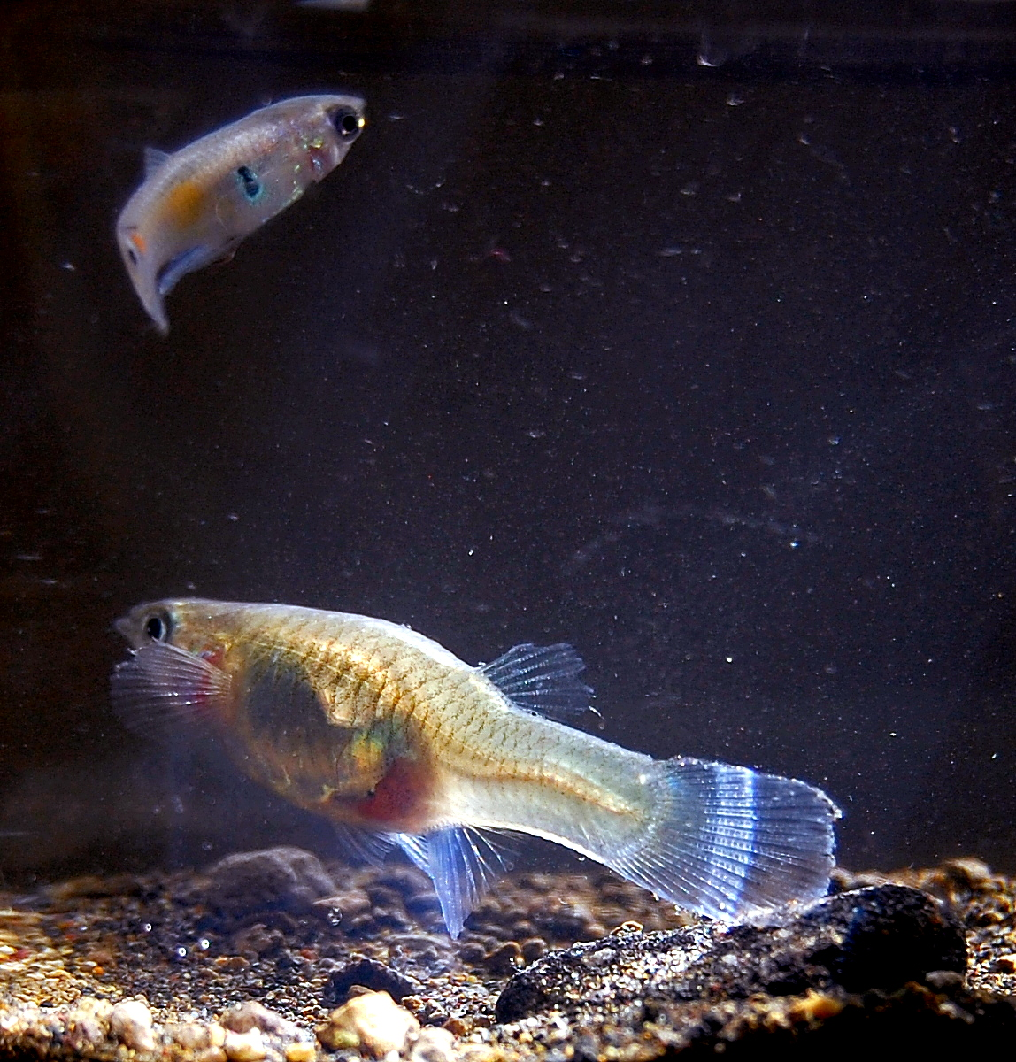 Wild Poecilia reticulata from Ciliwung River, Bogor, West Java, Indonesia